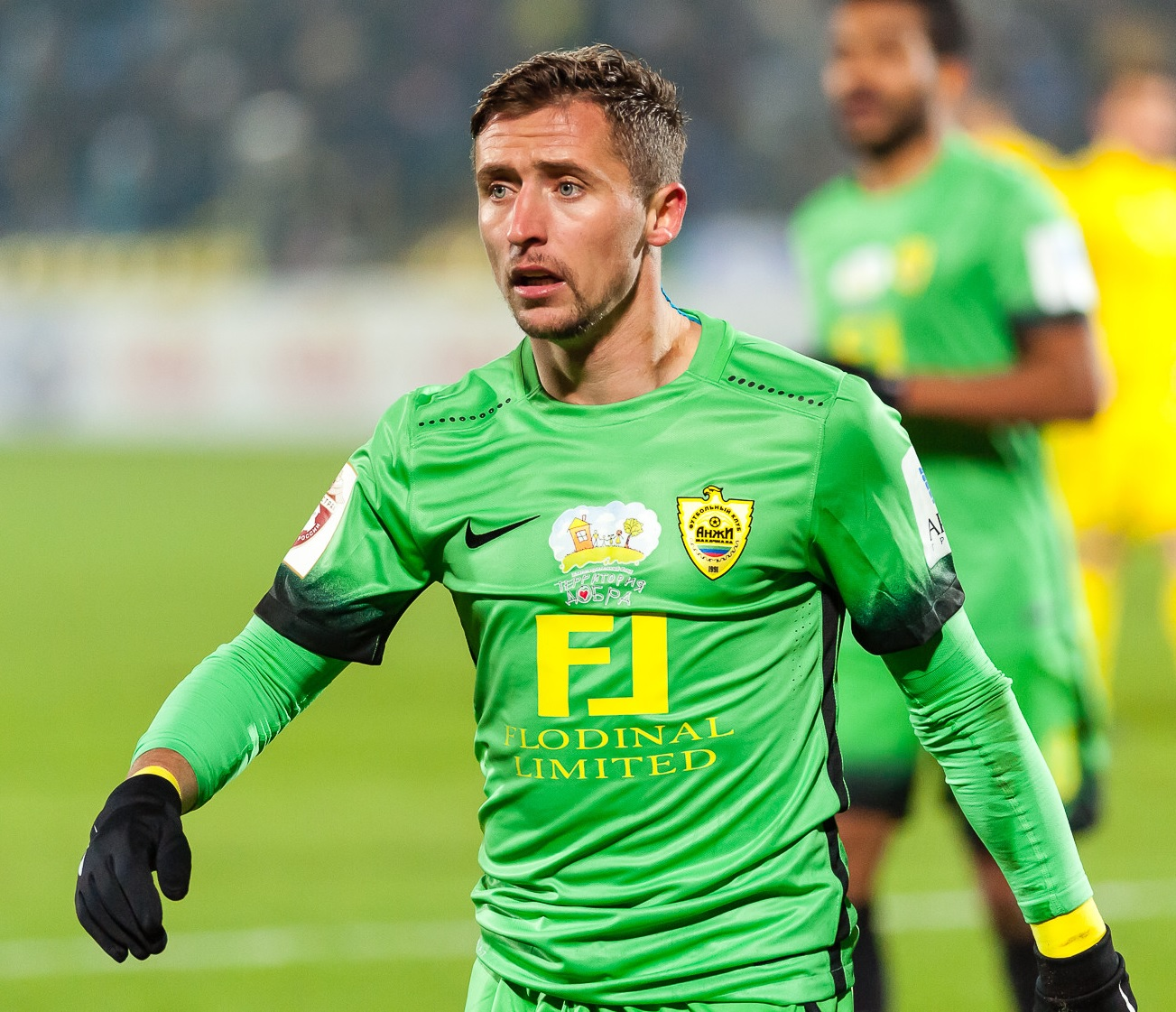 Bernard Berisha with FC Anzhi Makhachkala in a game against FC Rostov.